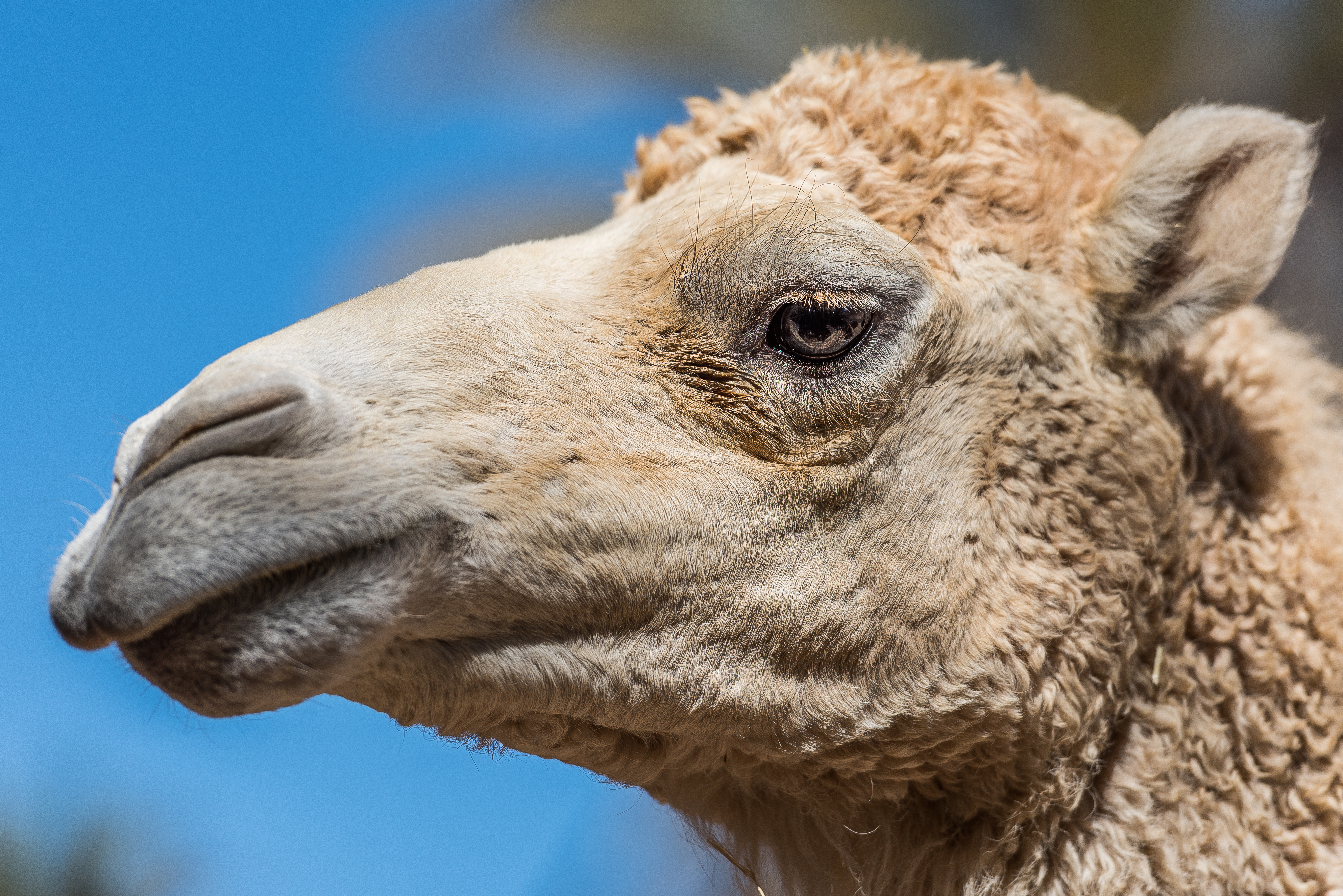 Mammals in Oasis Park Fuerteventura Spain February 2016